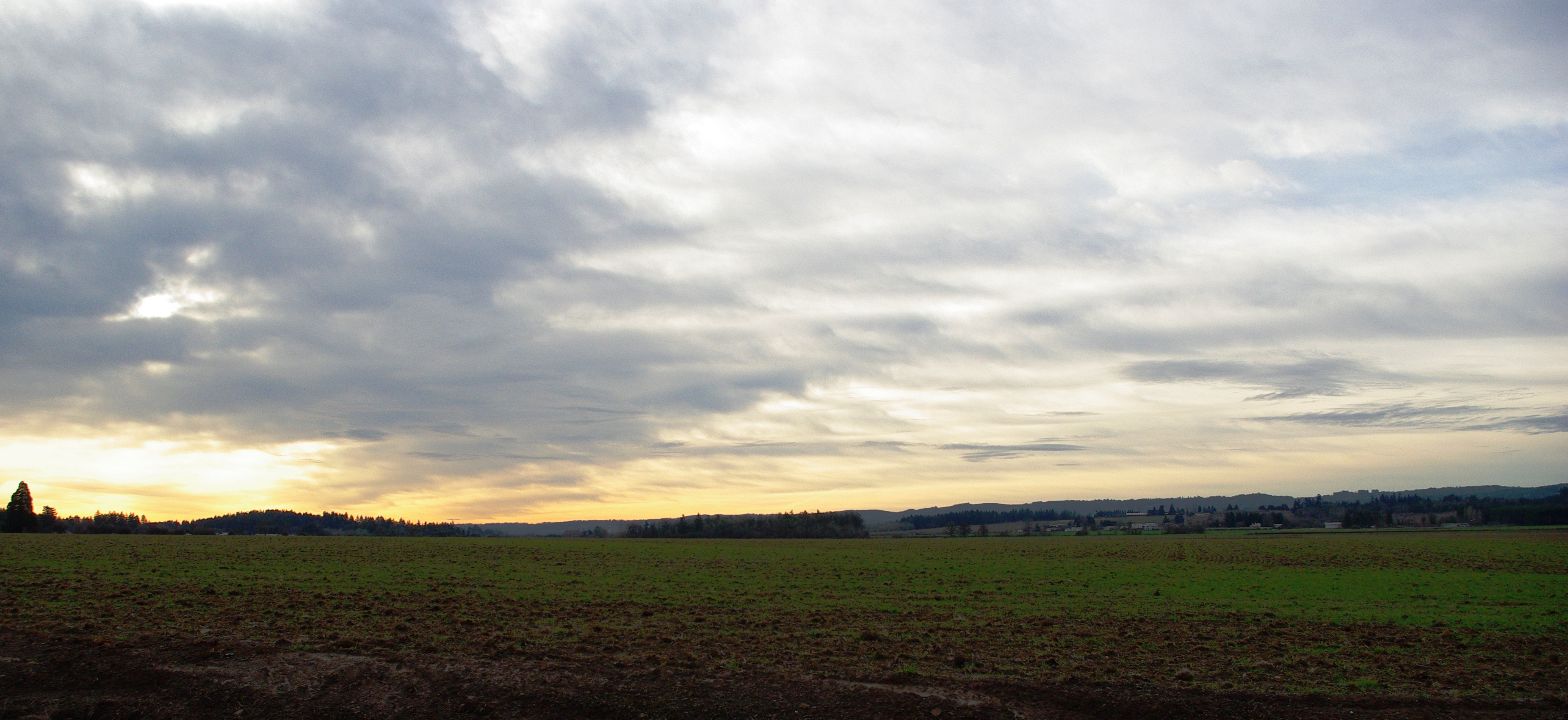 Tualatin Plains south of Hillsboro, Oregon with the Chehalem Mountains in the background. From Tongue Road looking south.